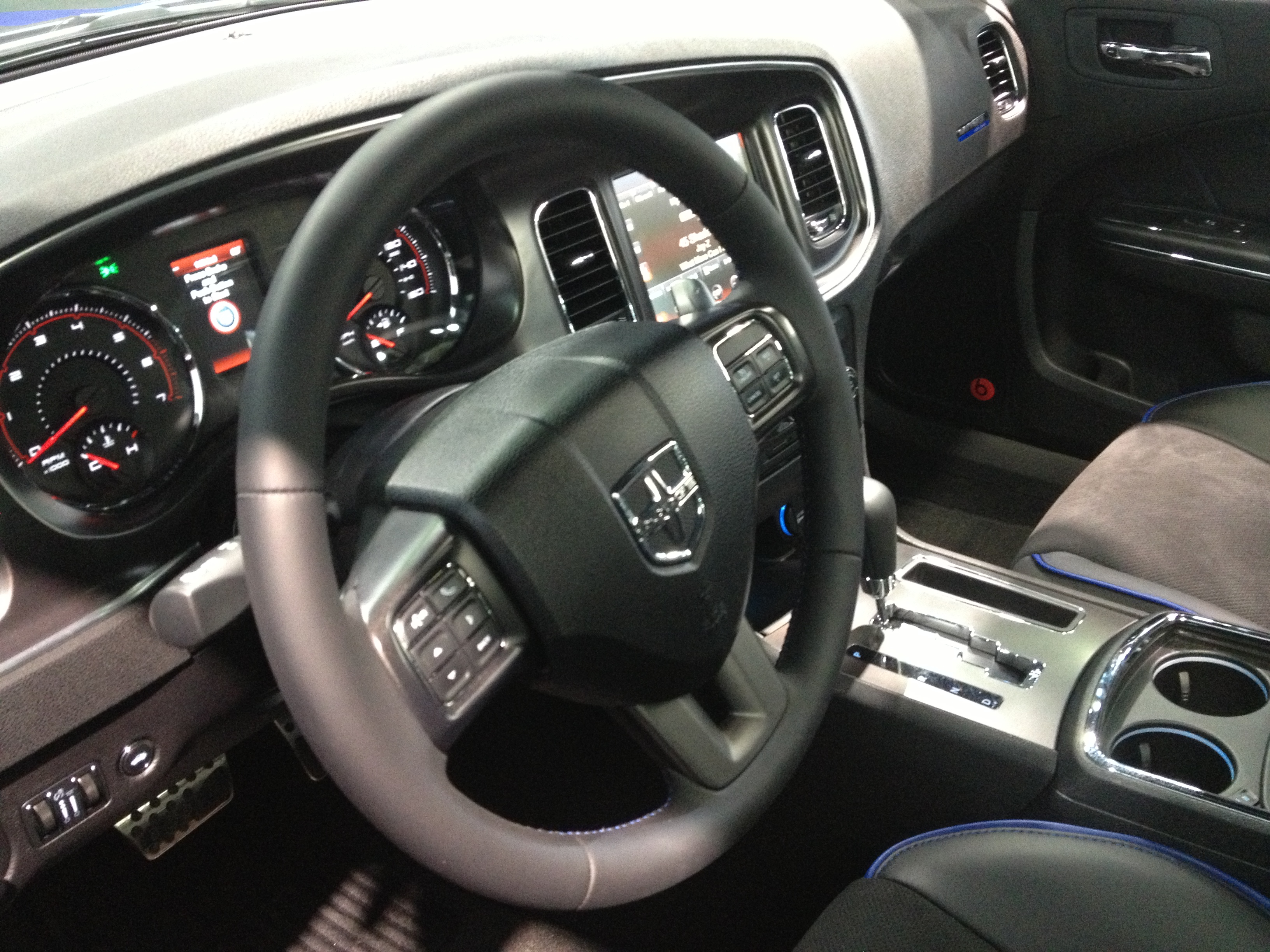 2013 North American International Auto Show Detroit, Michigan